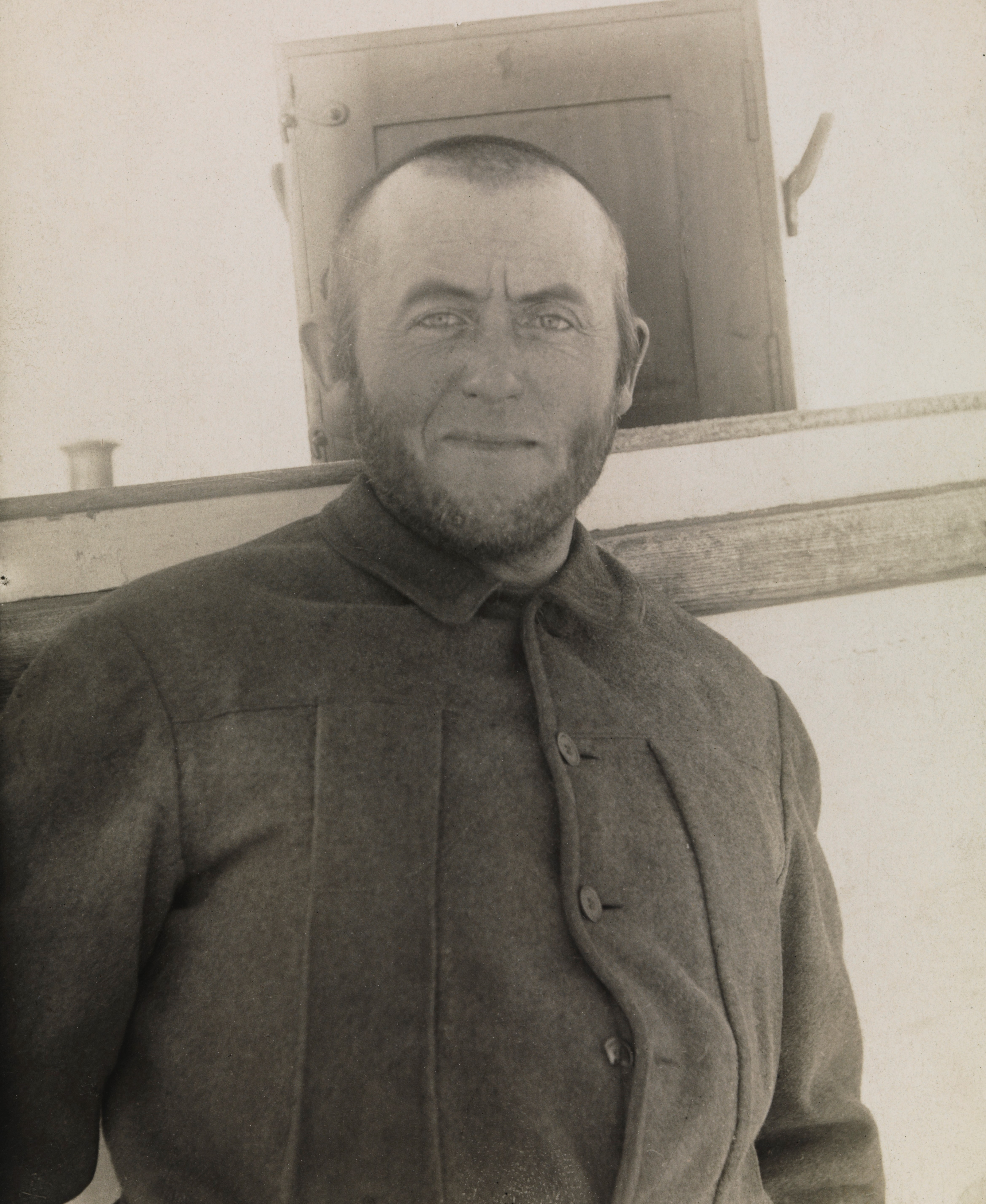 Frederik Hjalmar Johansen, officer, meteorological assistant and stoker, on board the «Fram». One of the pictures from the expedition with arctic ship toward the North Pole in the period June 24, 1893 to August 13, 1896. According to the plan, the ship was to drift in the ice with the ocean current from the coast of Siberia across the North Pole to Greenland. The goal, to get to the North Pole, was not reached, but the scientific evidence gathered was of great importance to arctic research.